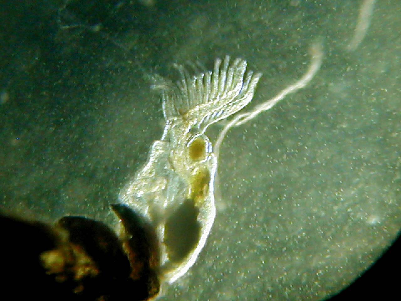 Freshwater bryozoan from a lake in NC, USA.